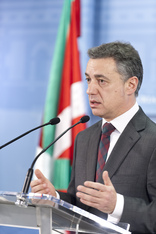 The Lehendakari Iñigo Urkullu, President of the Basque Government